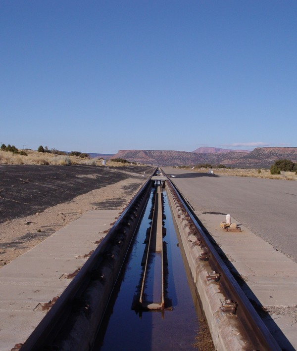 Hurricane Mesa Test Facility track, from south end of test track.